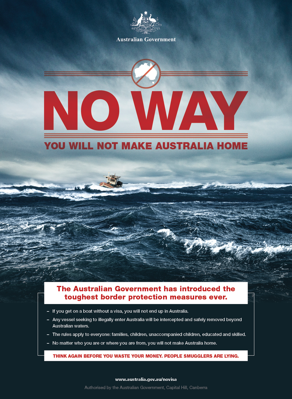 Stop the boats - Operation Sovereign Borders